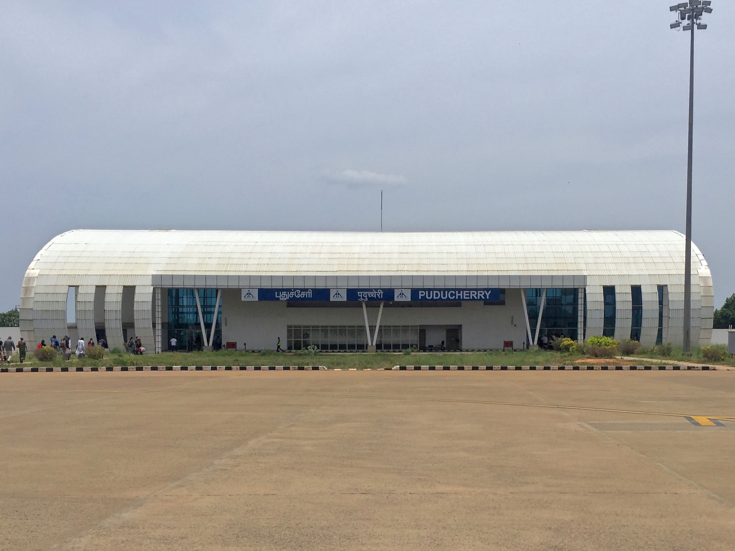 Airside view of the passenger terminal at Pondicherry Airport, India